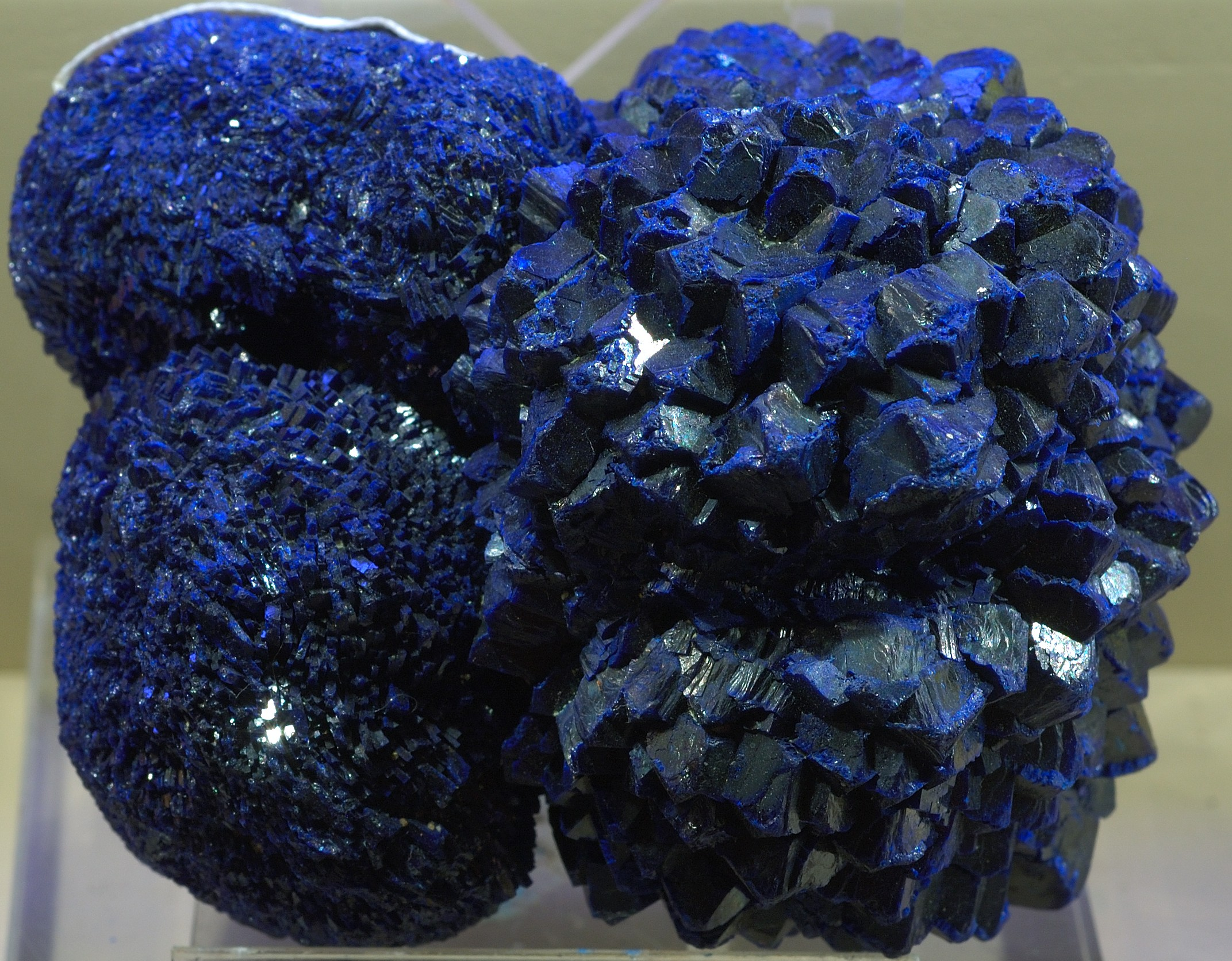 Azurite from Shilu Copper Mine, Guangdong Province, China